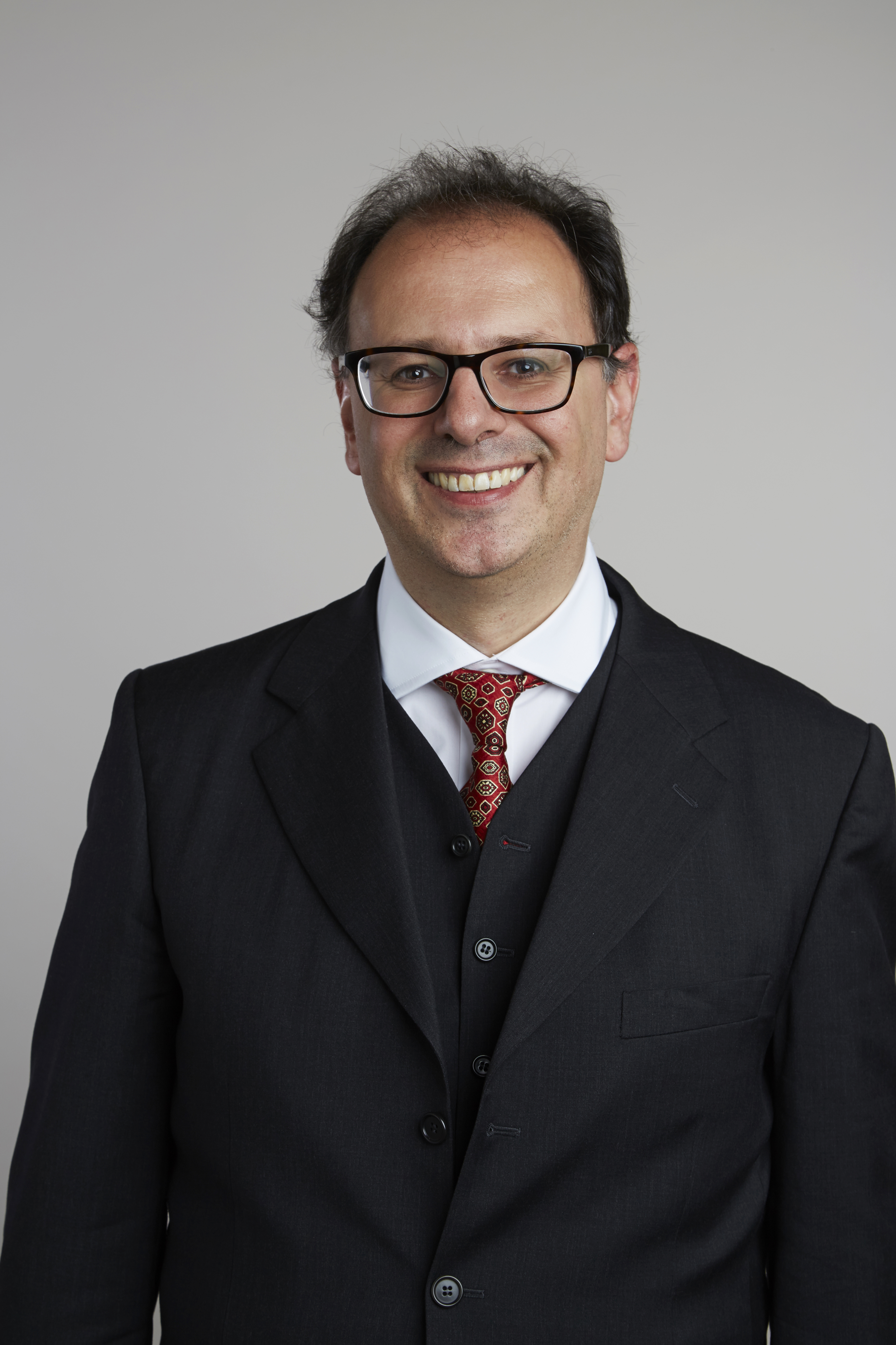 Ali Alavi studied at Trinity College, University of Cambridge, obtaining his PhD in theoretical chemistry under the supervision of Ruth Lynden-Bell and Ian McDonald. After completing postdoctoral work at the FOM Institute AMOLF in Amsterdam, and a two-year junior research fellowship at Trinity, in 1995 he moved to Queen’s University Belfast for his first lecturing appointment. He returned to Cambridge in 2000, was made Reader in 2005 and Professor in 2011. In 2013, he became a Scientific Member of the Max Planck Society and in 2014 started a fulltime directorship at the Max Planck Institute for Solid State Research in Germany. Ali’s main research interest is to develop algorithms for the accurate solution of electronic Schrödinger equations based on stochastic concepts. Attribution: The Royal Society